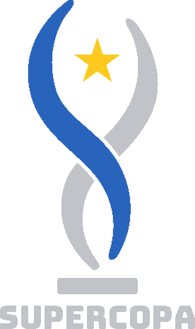 Logo of Uruguayan Supercopa championship.